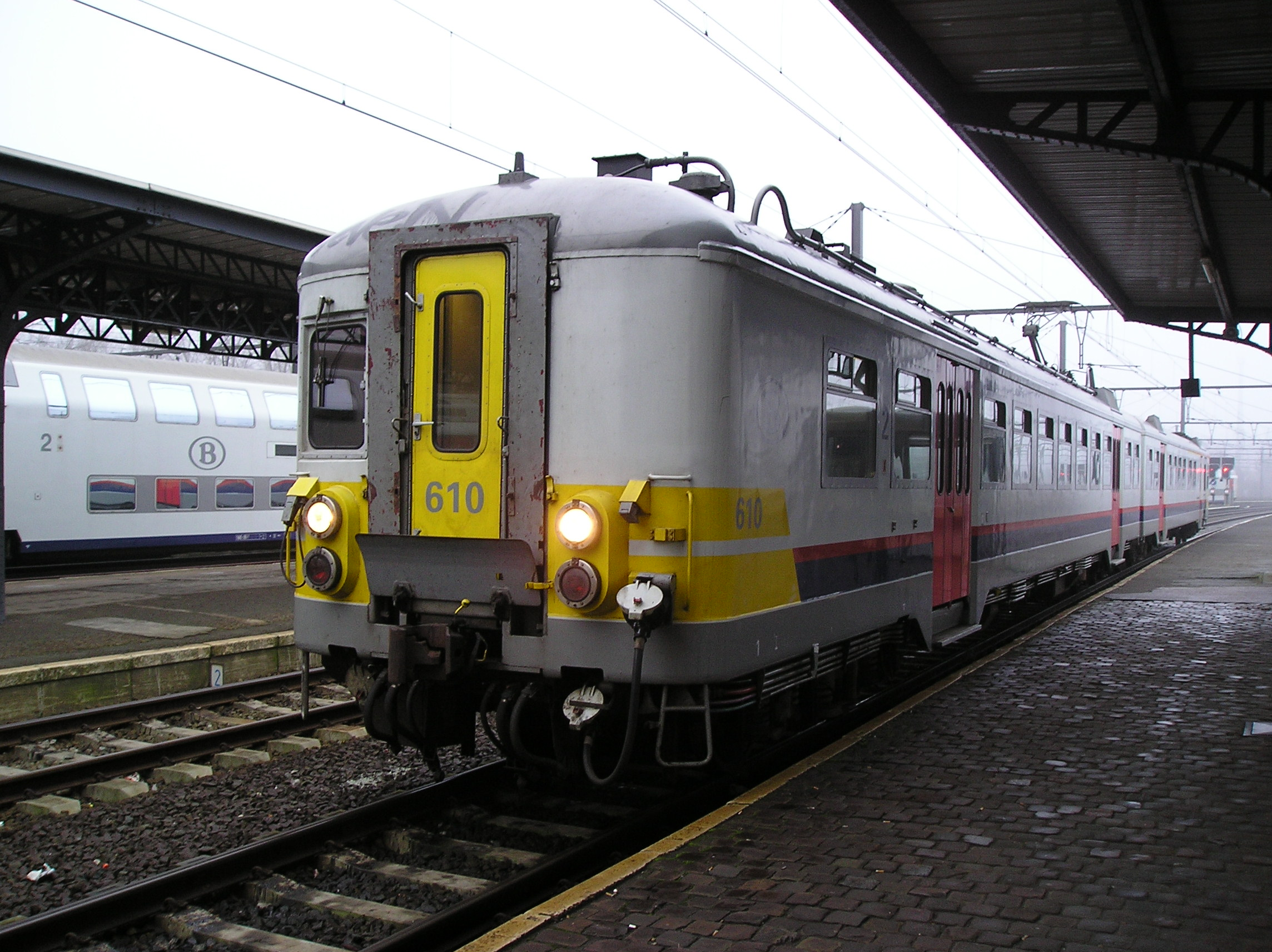 Classical electric multiple unit is a nickname of some similar series (series AM39, AM50, AM53, AM54, AM55, AM56, AM62, AM66, AM73) of Belgian EMUs, produced between 1939 and 1979 (about 500 were made), and in use used untill now. This particular one was photogrphed in Dendermonde train station